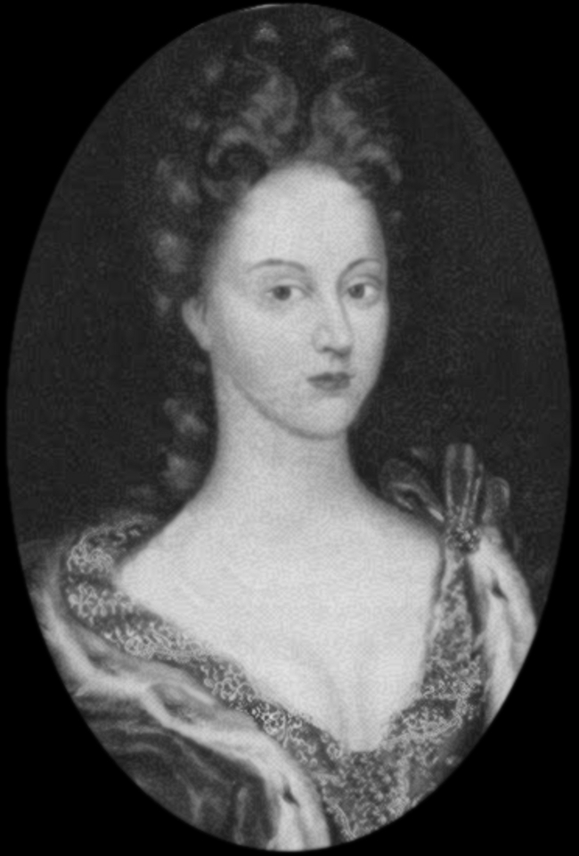 Dorothea Charlotte of Brandenburg-Ansbach